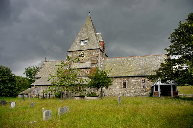 St Peter's Church, Finsthwaite St Peter’s Church was founded in 1724 and was originally in the parish of Hawkshead. The church you see today, however was built in 1873-4, to a design by Paley and Austin, in slate and sandstone.